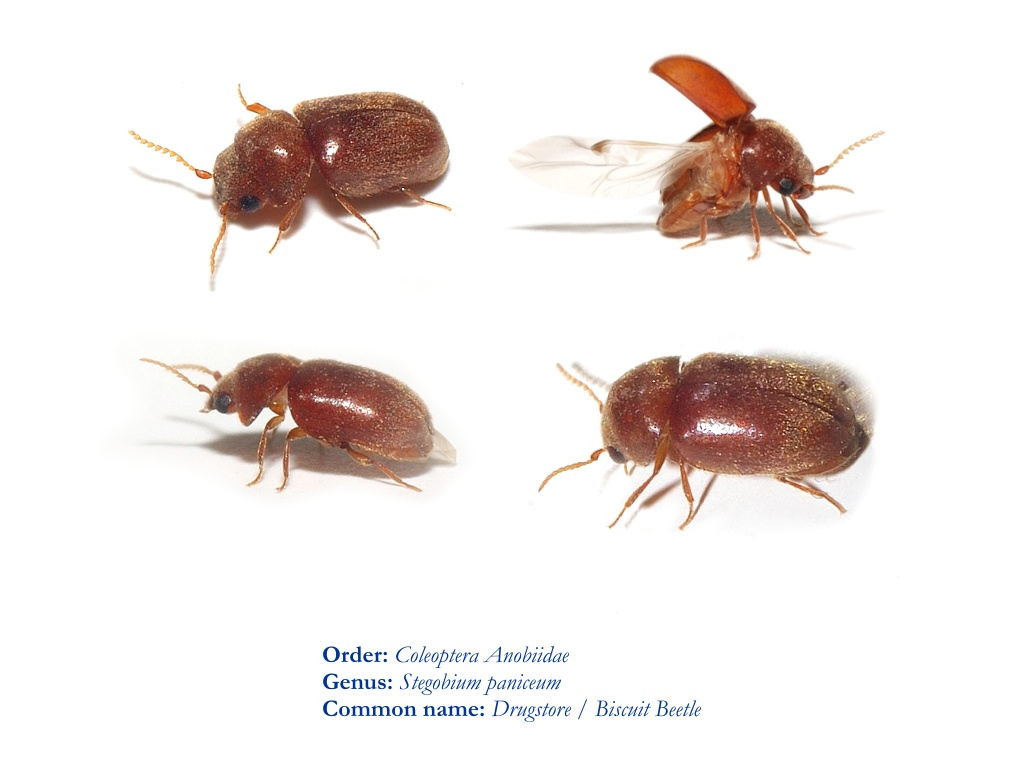 Cigarette Beetle, Lasioderma serricorne. Photographs by Kamran Iftikhar.